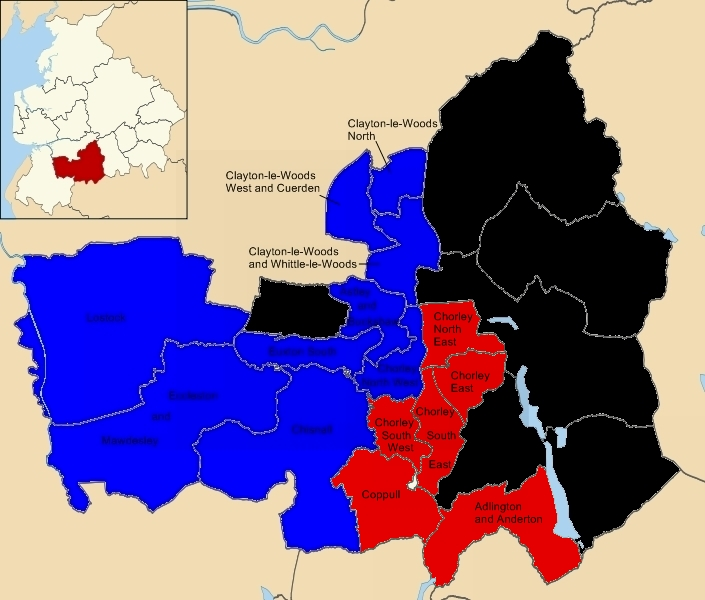 Map of the results of the 2003 Chorley Borough Council Election.